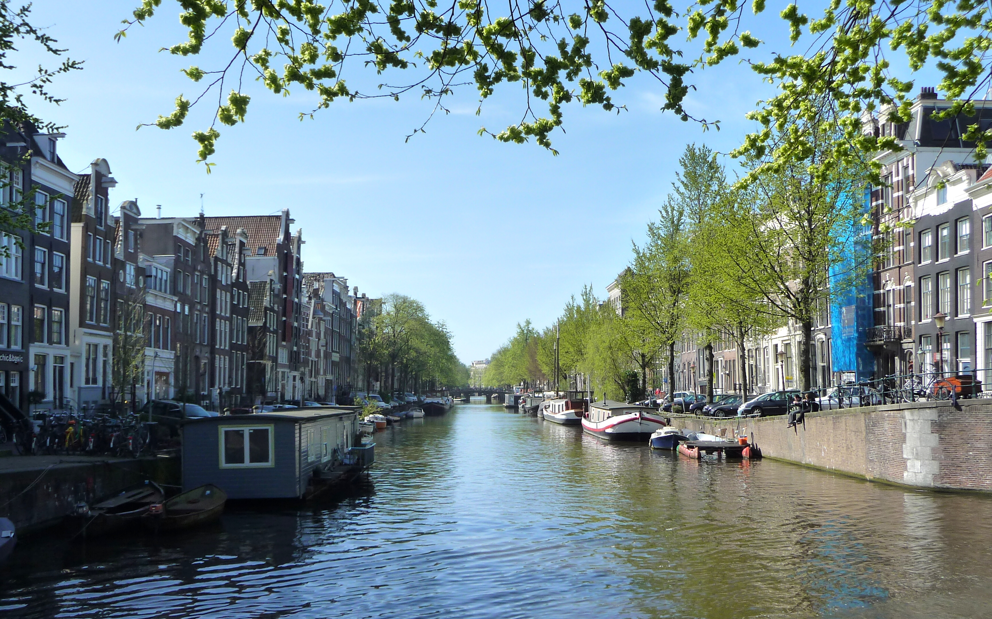 The Herengracht in Amsterdam (North Holland, the Netherlands).